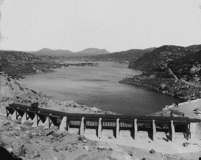 From San Diego History Center (San Diego Historical Society).